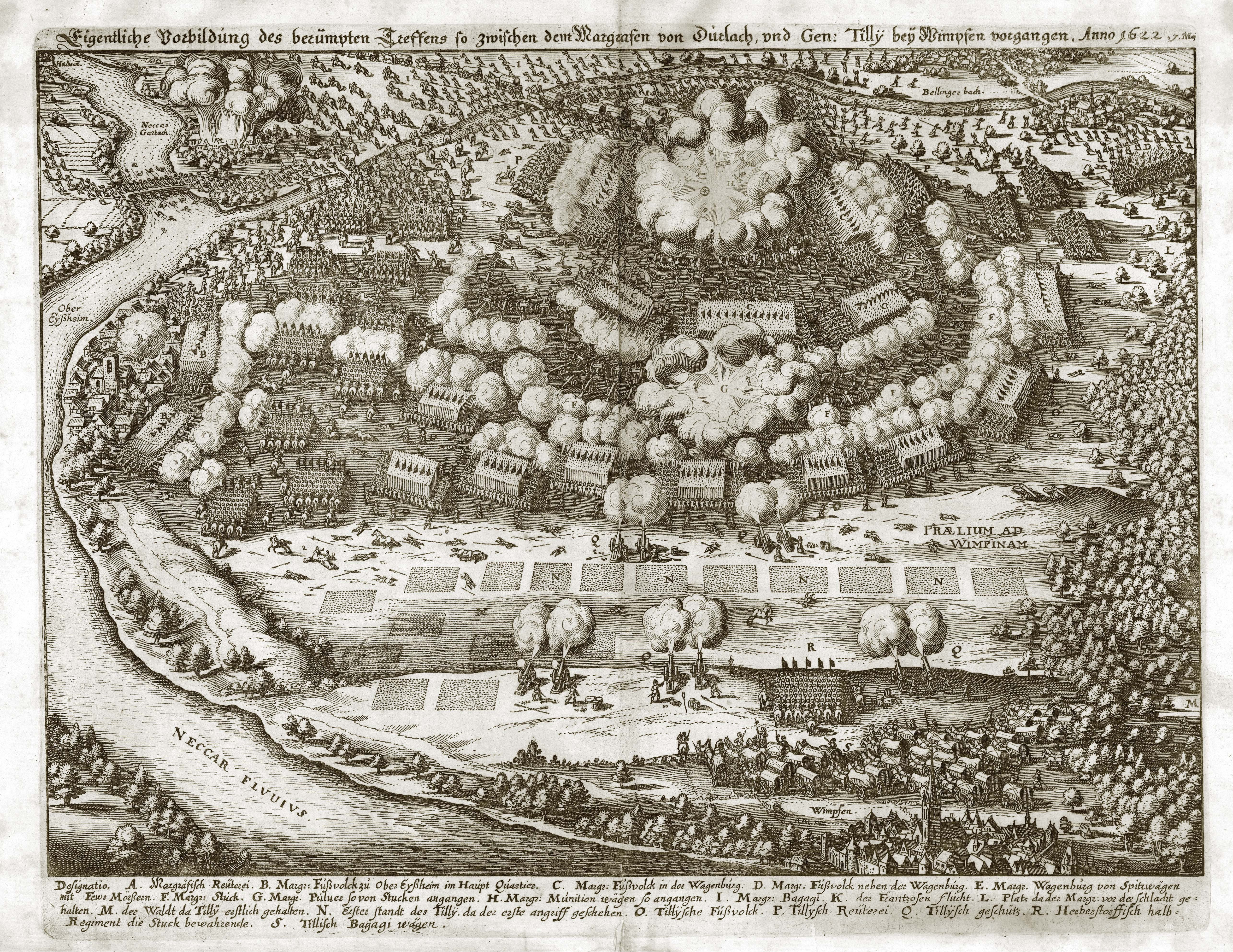 Battlefield view from the north: Wimpfen town bottom right; Heilbronn top left; Neckar river on left side; Böllinger Bach brook on top. The protestant army is under attack from three sides. Two large explosions are visible in their camp. Defeated soldiers are fleeing towards the top of the picture.